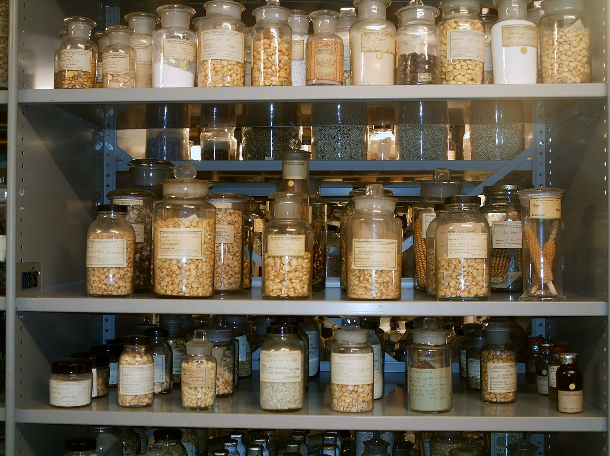 Dried cereal grains and other similar products in glass jars in the herbarium collection at Leiden.